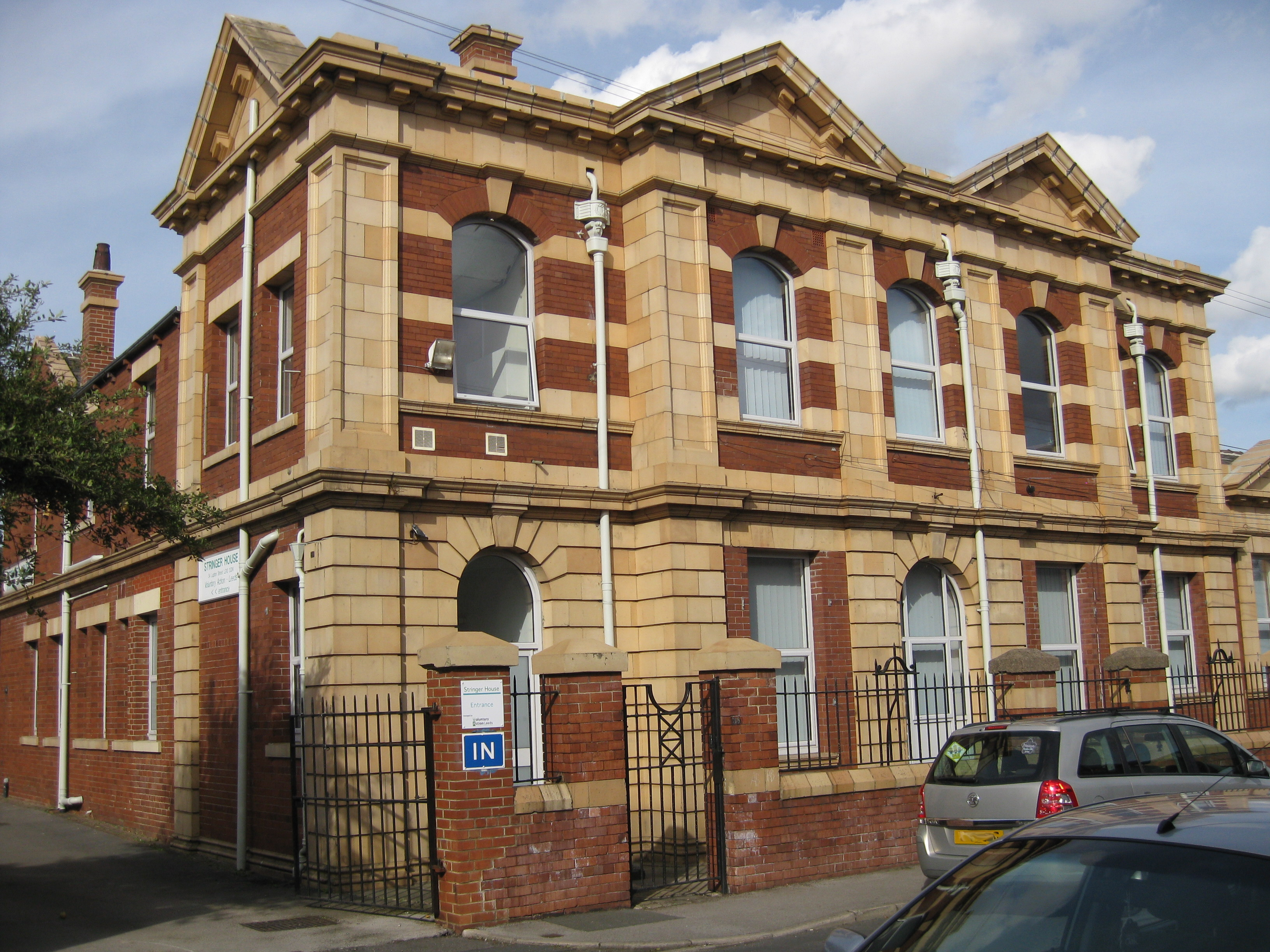 Stringer House, 34 Lupton Street, Hunslet, Leeds, LS10 2QW. Built 1914 as the offices of Scott Walter Ltd (owners of the then adjacent steelworks). Bought 1992 by the City of Leeds, and currently the headquarters of Voluntary Action Leeds. Red brick with cream stone facing details.